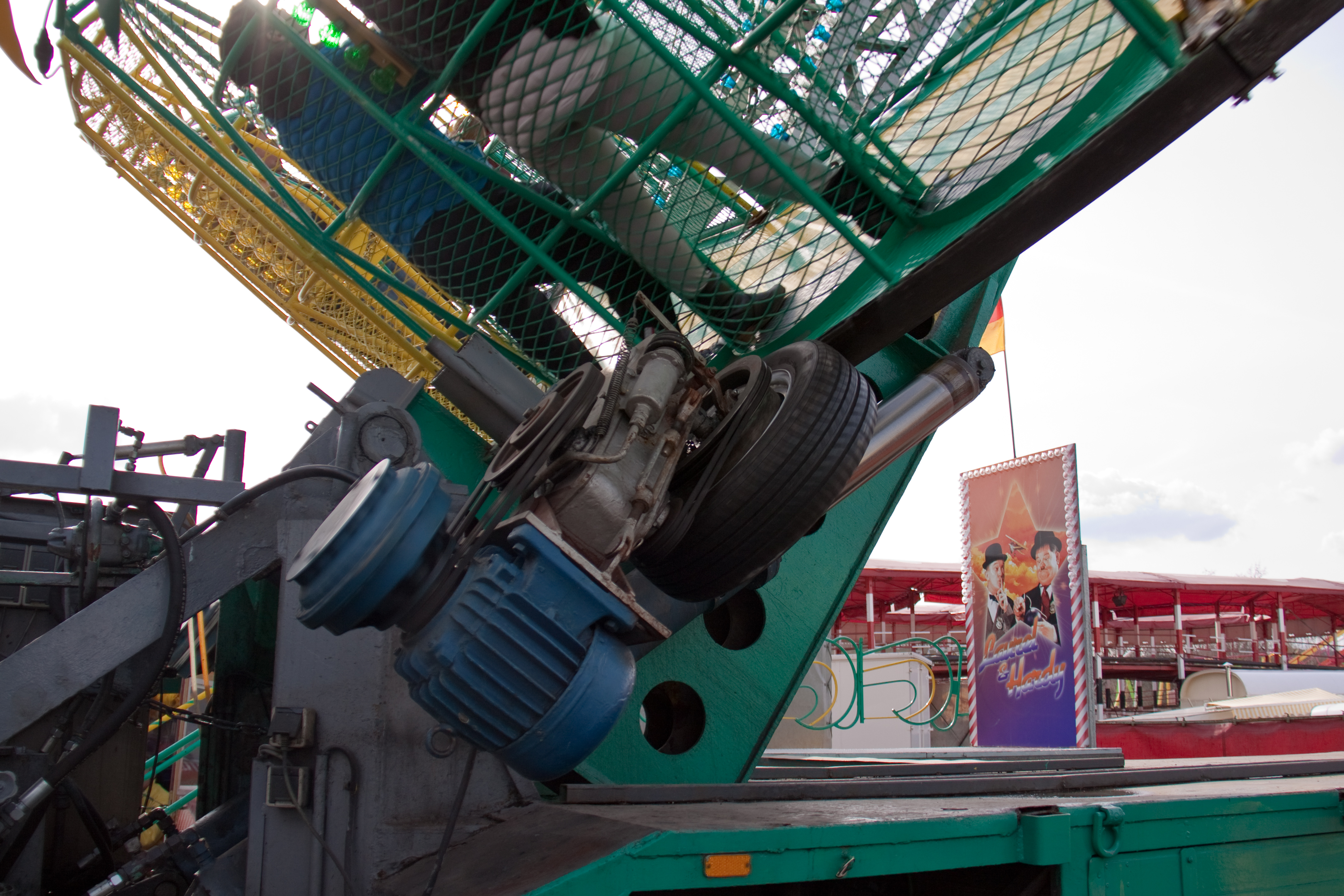 Power unit of a Round Up amusement ride